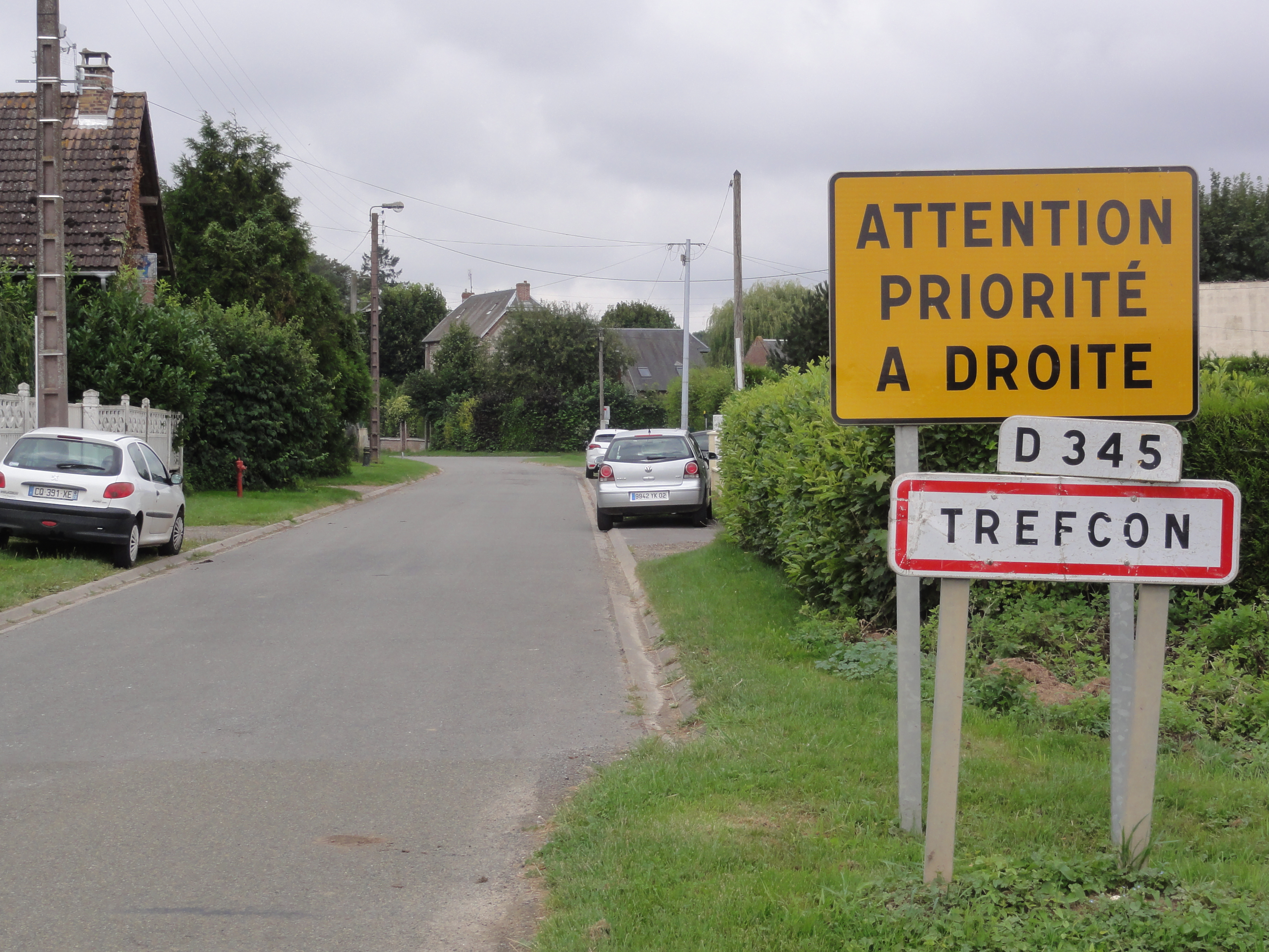 Trefcon (Aisne) city limit sign